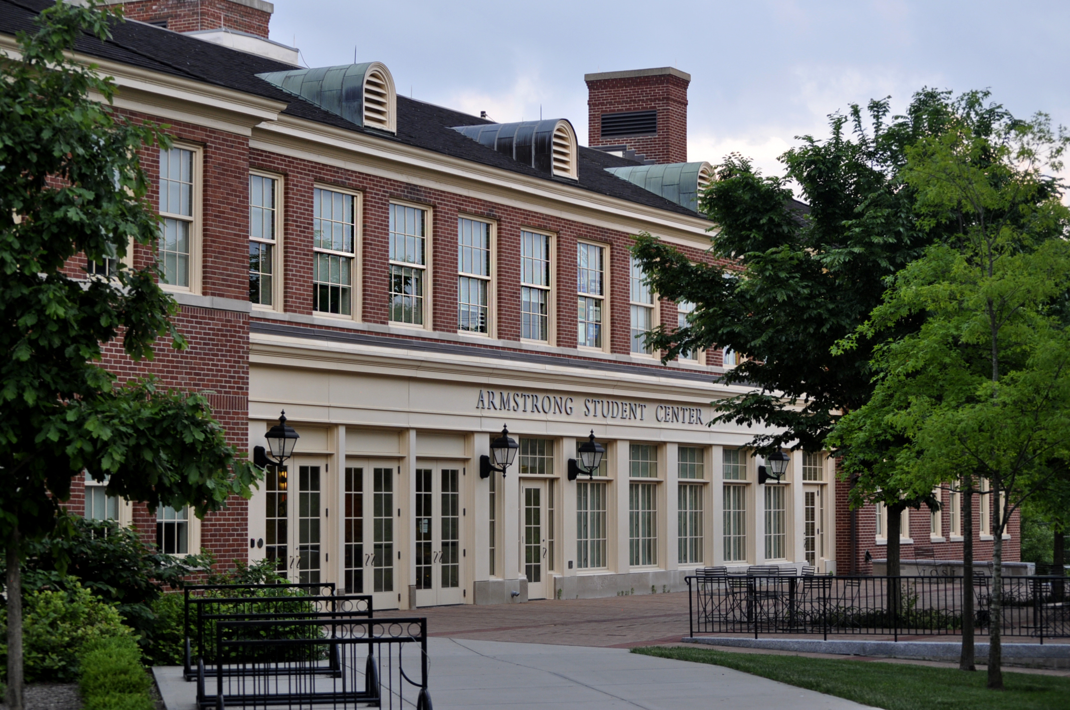 Armstrong Student Center at Miami University, Oxford, Ohio